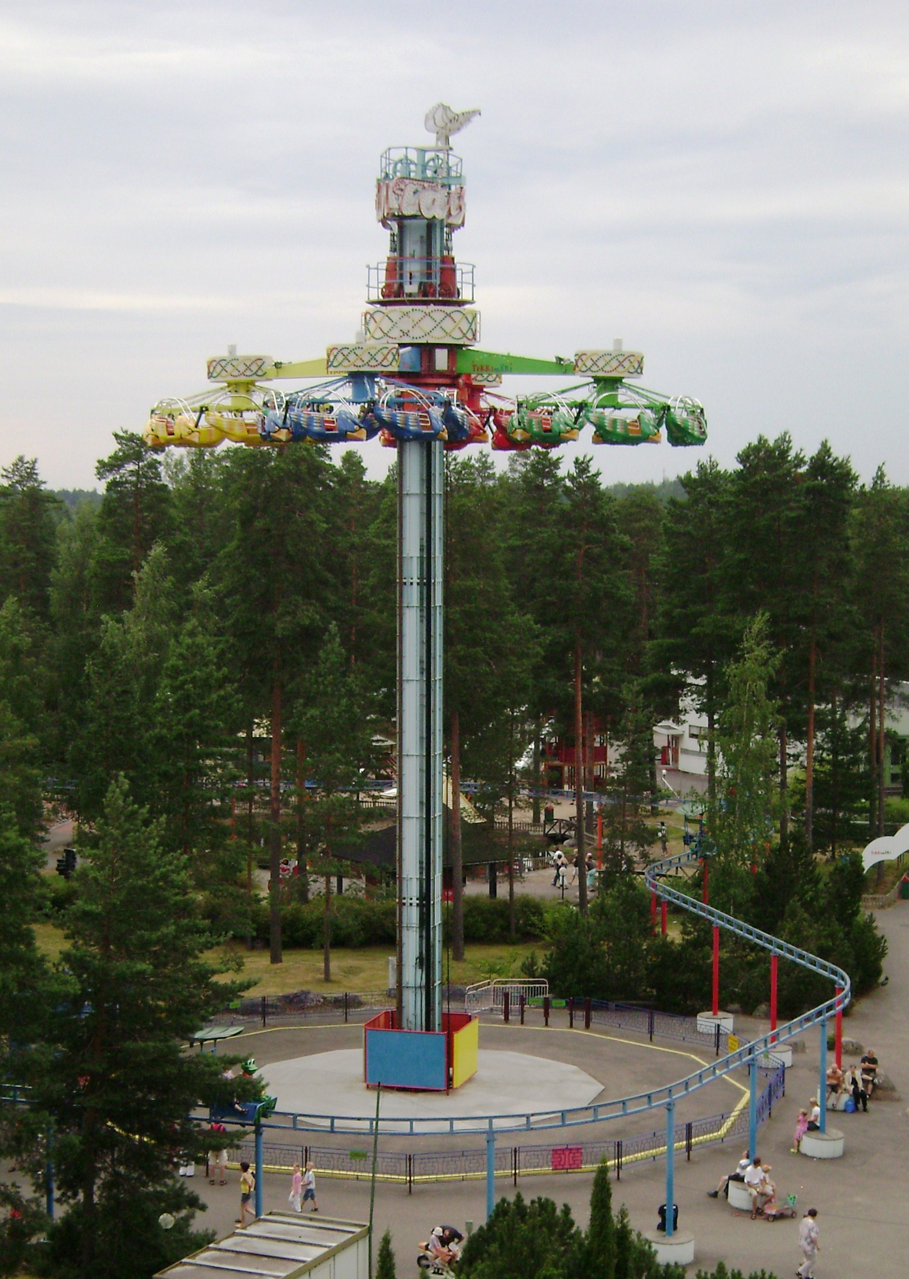 Taifun (Condor) in Tykkimäki amusement park, Kouvola, Finland.